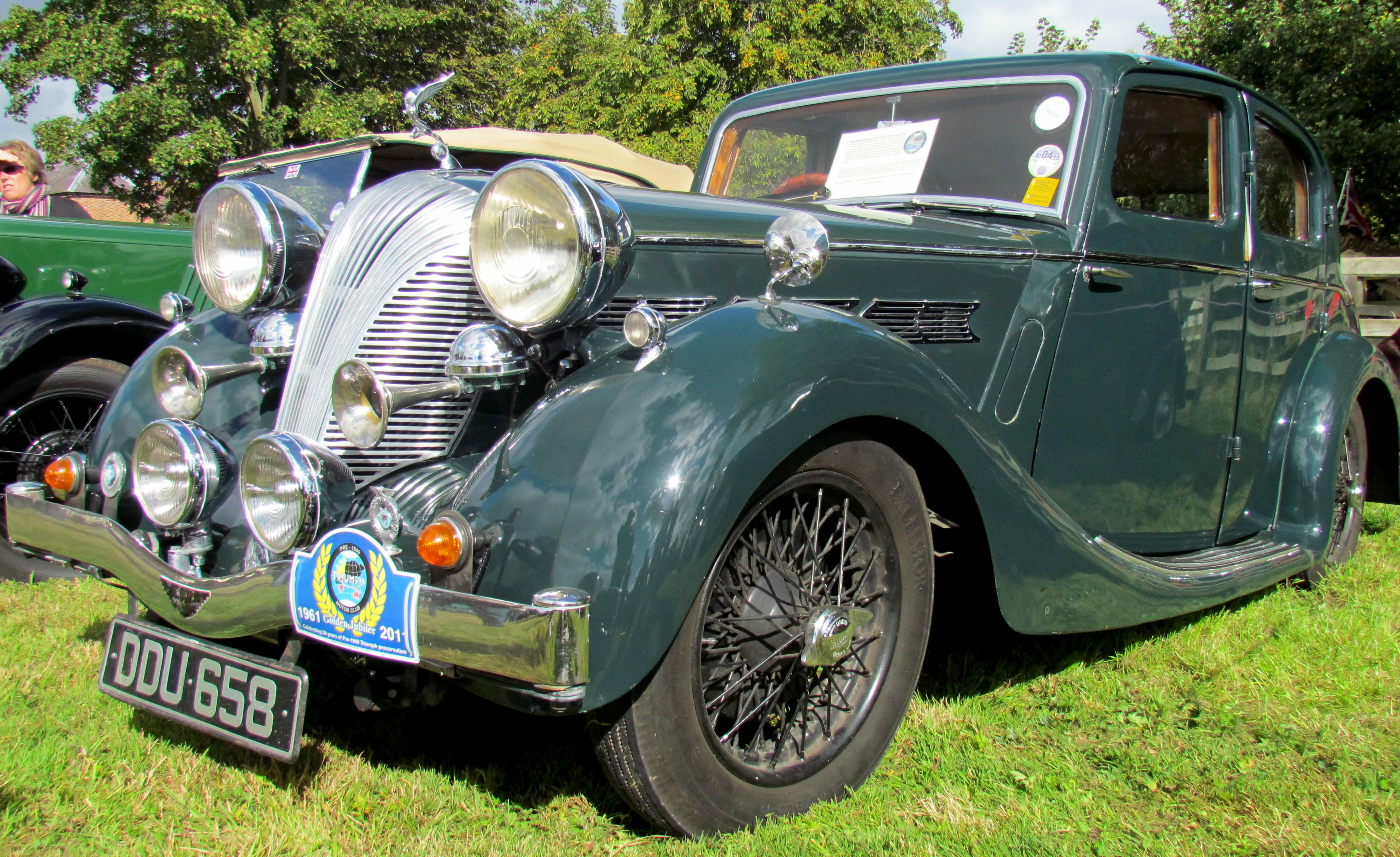 1938 - Triumph Dolomite - DDU 658 (DVLA) first registered 25 February 1938, 1767cc Village at War Weekend 2012, Stoke Bruerne, Northamptonshire